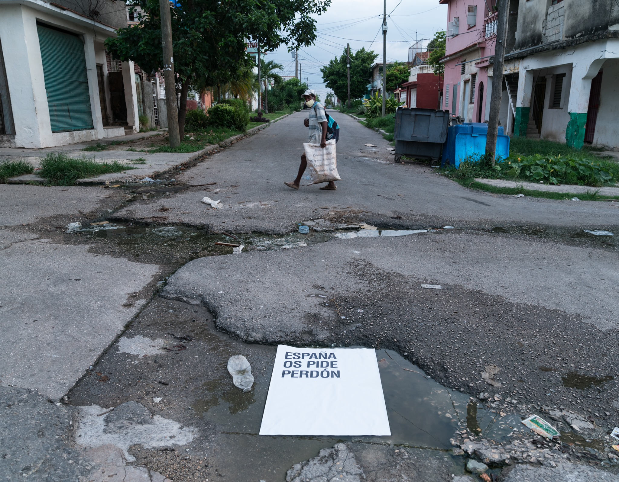 Obra de Abel Azcona en la Habana